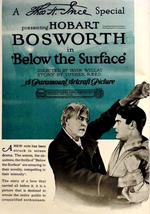 Ad for the American film Below the Surface (1920) with Hobart Bosworth and Lloyd Hughes, on page 4554 of the June 5, 1920 Motion Picture News.